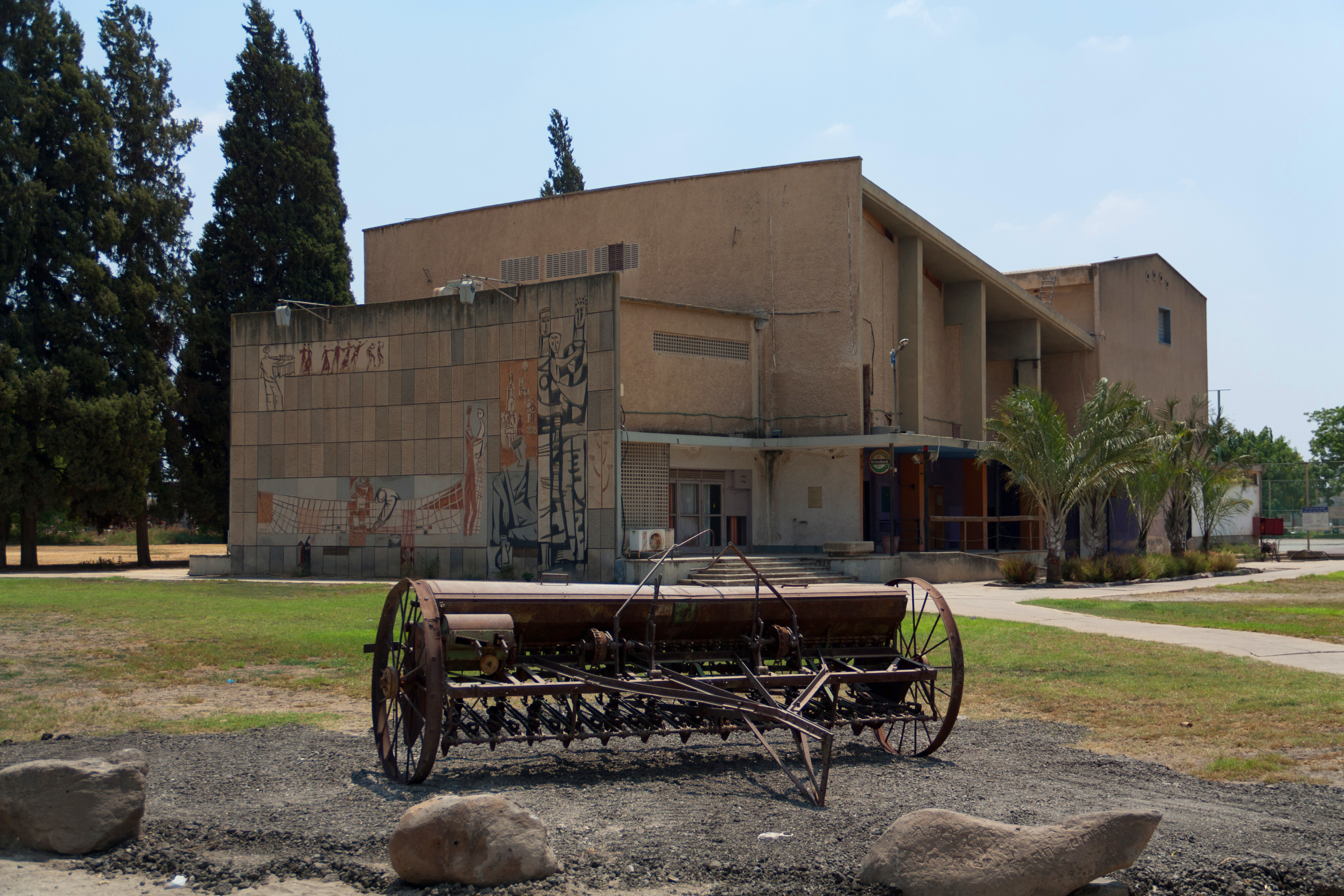 Public building in Ashdot Yaakov Ihud